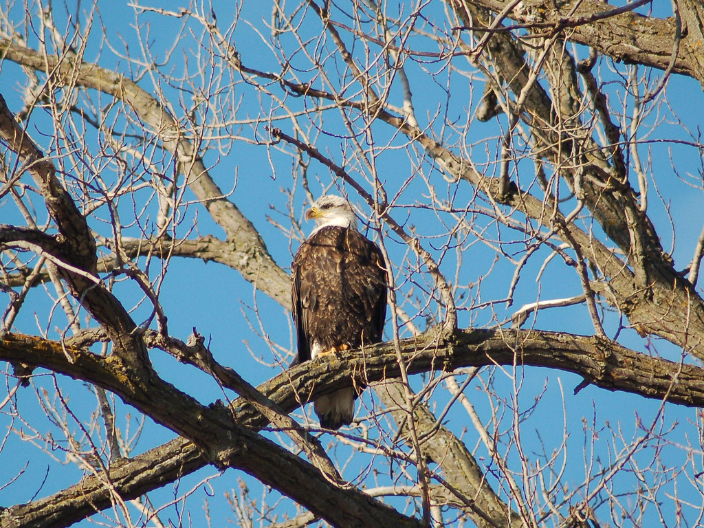 Bald Eagle sitting in a tree above Black Dog Road (Black Dog Preserve) in Burnsville, Minnesota. Same eagle as in the similar photo but more of a profile.